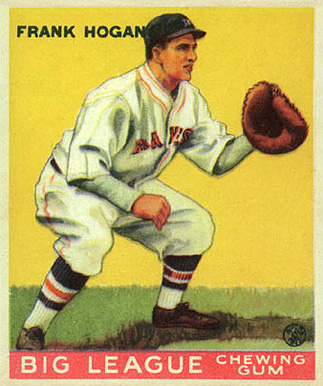 1933 Goudey baseball card of Frank "Shanty" Hogan of the Boston Braves #30. PD-not-renewed.